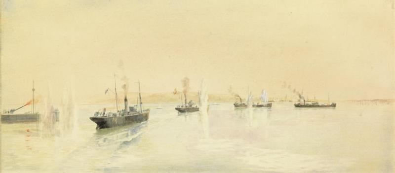 The Reconnaissance of the Bolshevik Advanced Base at Fort Alexandrovsk (caspian Sea) - the destruction of the hostile fleet, May 21st 1919, by part of the British Caspian Squadron commanded by Commodore D Norris, Cb, Rn image: a seascape view of a naval action. At the far left, the gun of a ship is firing, while another British ship to its right steams towards three other vessels in the centre and right. Shell bursts are seen between the two British ships and beside two of the enemy vessels.